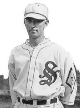 Professional baseball player Ovid Nicholson